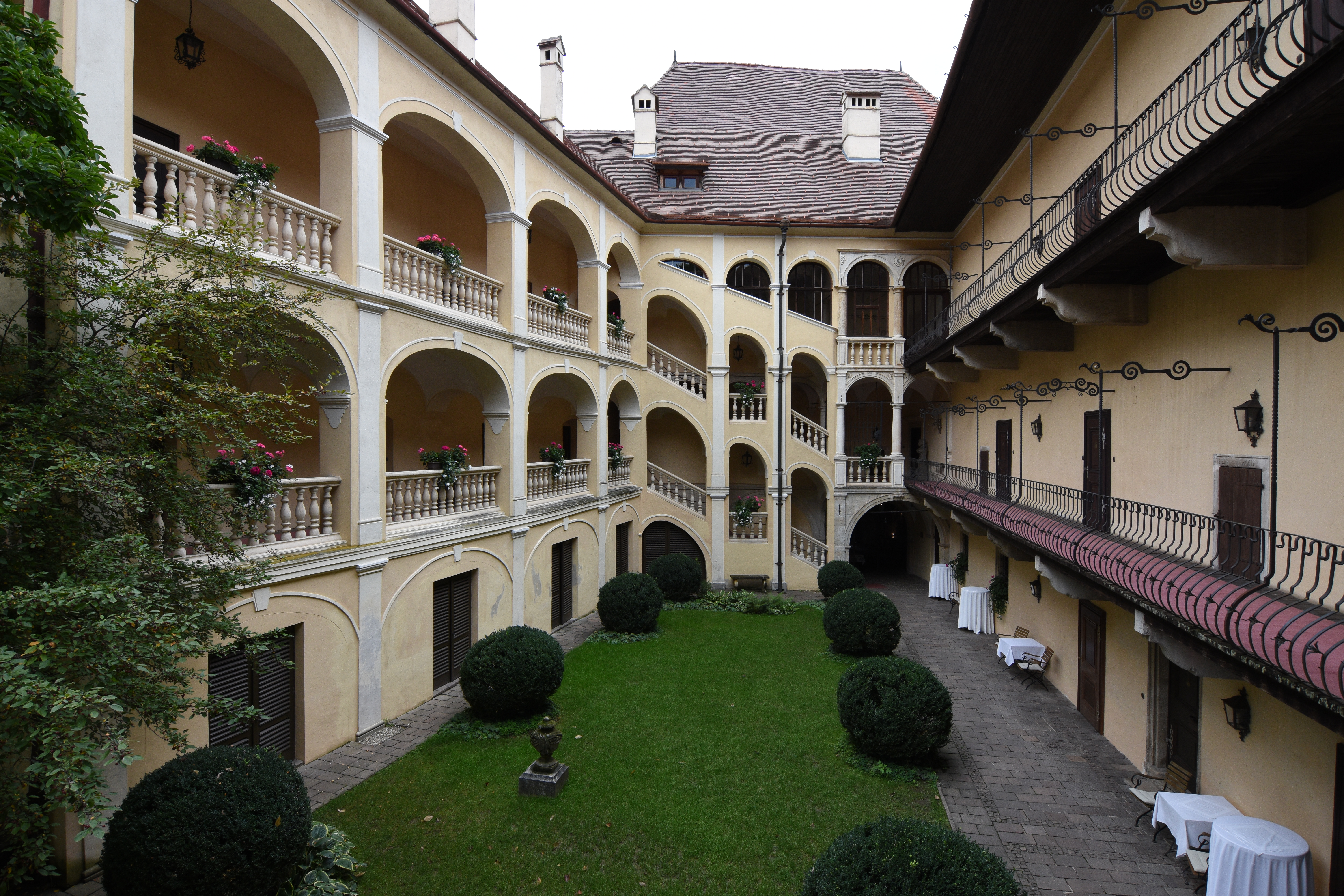 Castle Obermayerhofen